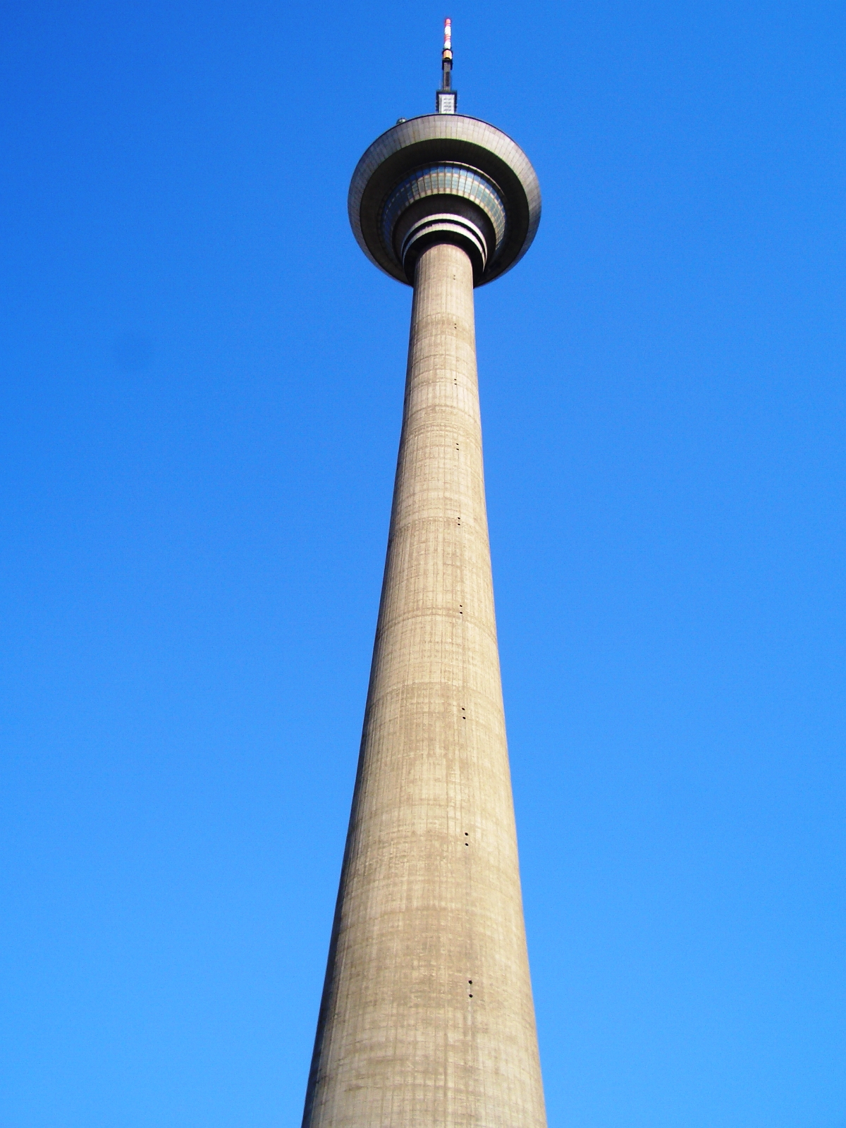 View of the Tianjin TV Tower in the PRC